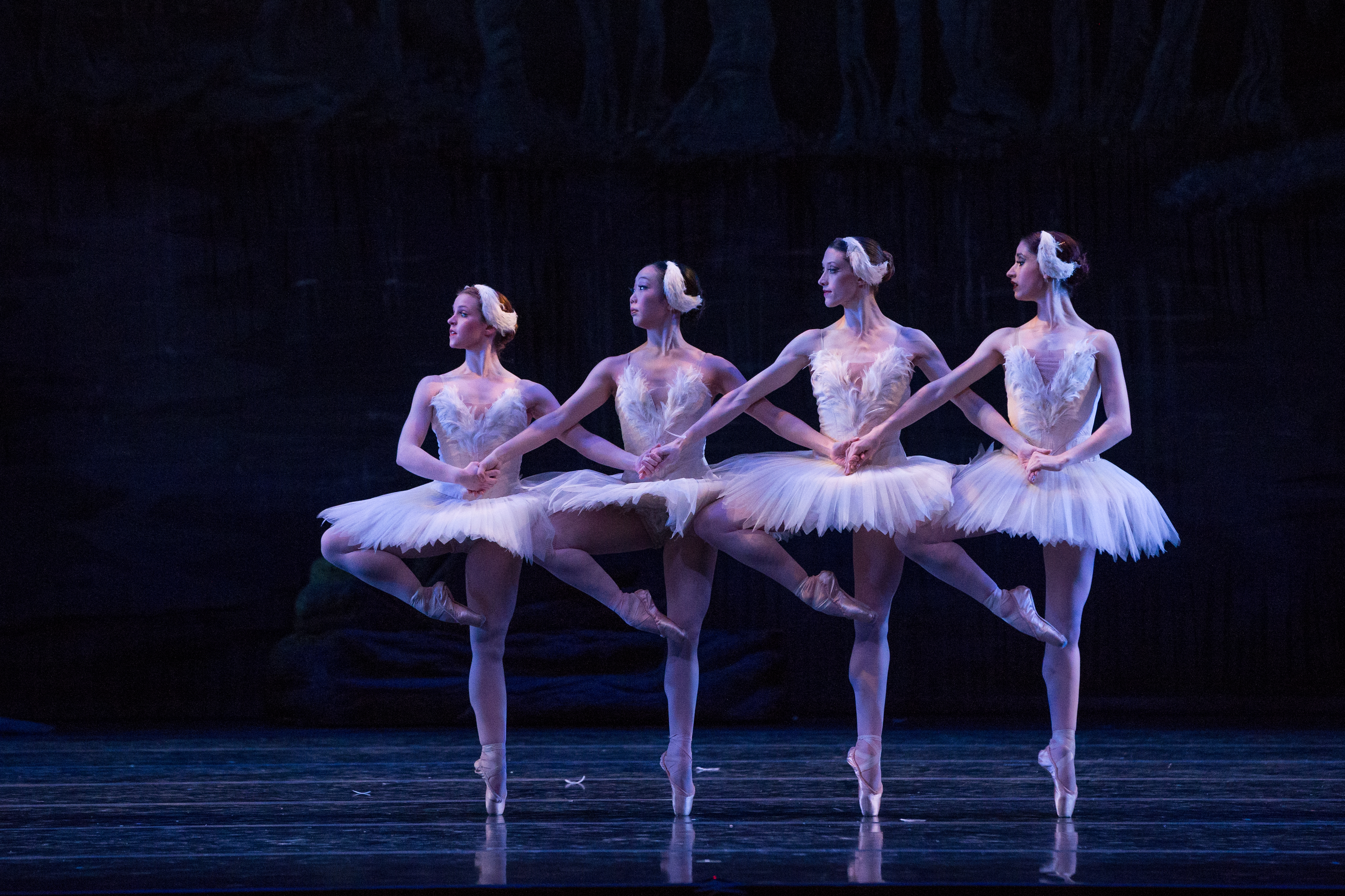 KCB Dancers (L to R) Laura Hunt, Sarah Chun, Taryn Mejia, and Amanda in Swan Lake. Photo by Brett Pruitt & East Market Studios.